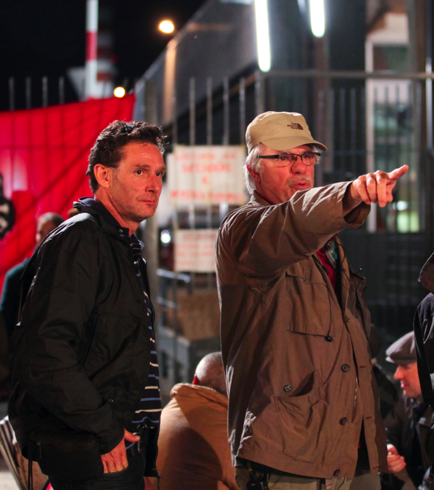 Ricky Tognazzi e Fabio Olmi sul set di 'Mia Madre'